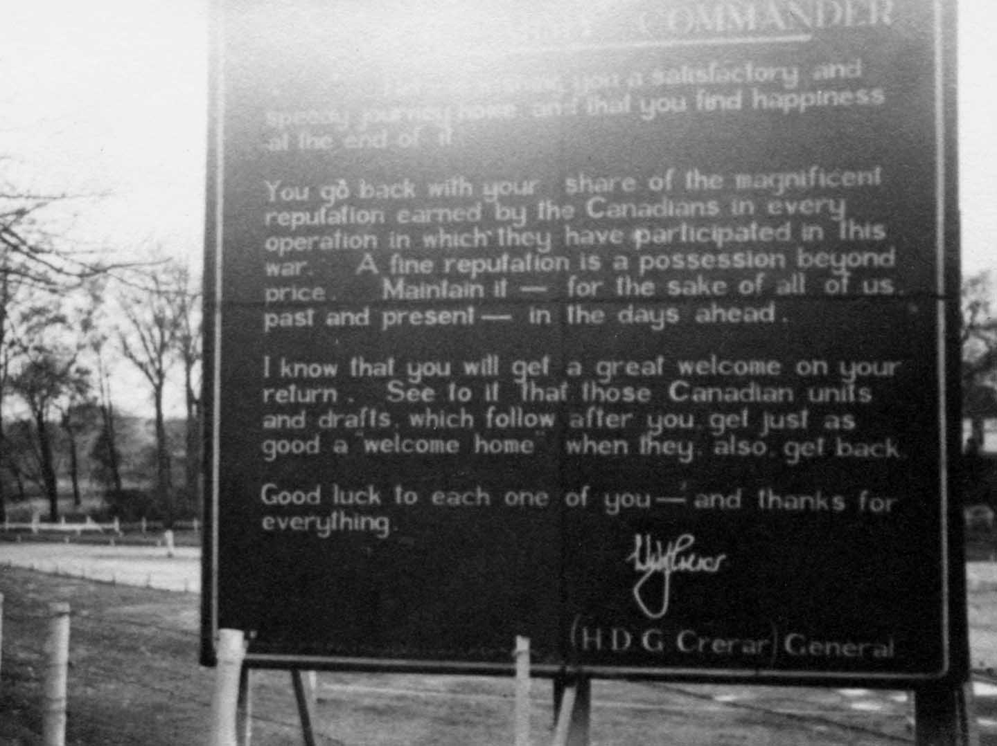 Farewell sign posted on behalf of Gen. H.D.G. Crerar to troops of the 1st Canadian Army departing from Holland in 1945.